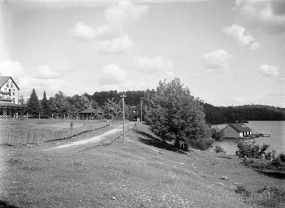 Title / Titre : Bowling green, tennis court, pavilion, boathouse and bathing beach, Port Sandfield, Lake Rosseau, Muskoka Lakes, Ontario / Terrain de boulingrin, court de tennis, pavillon, hangar à bateaux et plage de baignade, Port Sandfield, lac Rosseau, Muskoka Lakes (Ontario) Creator(s) / Créateur(s) : Frank W. Micklethwaite Date(s) : 1904 Reference No. / Numéro de référence : MIKAN 3326428 Location / Lieu : Muskoka Lakes, Ontario, Canada Credit / Mention de source : Frank W. Micklethwaite. Library and Archives Canada, PA-067305 / Frank W. Micklethwaite. Bibliothèque et Archives Canada, PA-067305